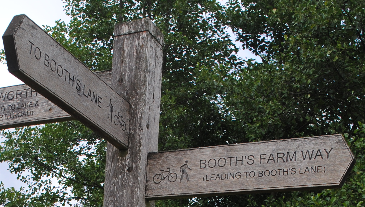 Queslett Nature Reserve fingerpost, Birmingham, England Left arrow: Ashworth Way (Leading to Lake & Ashworth Road) Right Arrow: Booth's Farm Way (Leading to Booth's Lane) Font-facing Arrow: To Booth's Lane Post: Queslett Nature Reserve